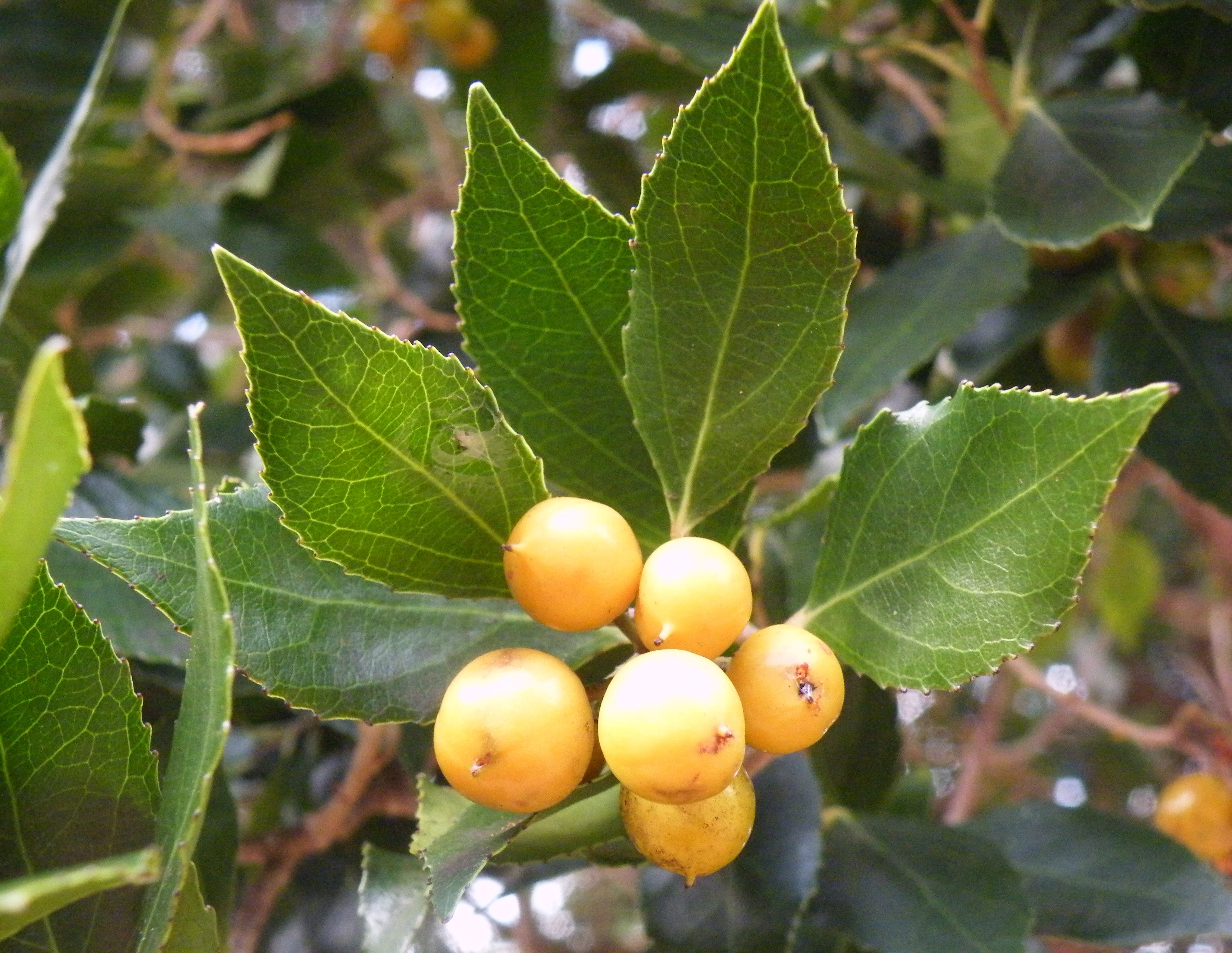 The Mountain saffron tree, indigenous to South Africa